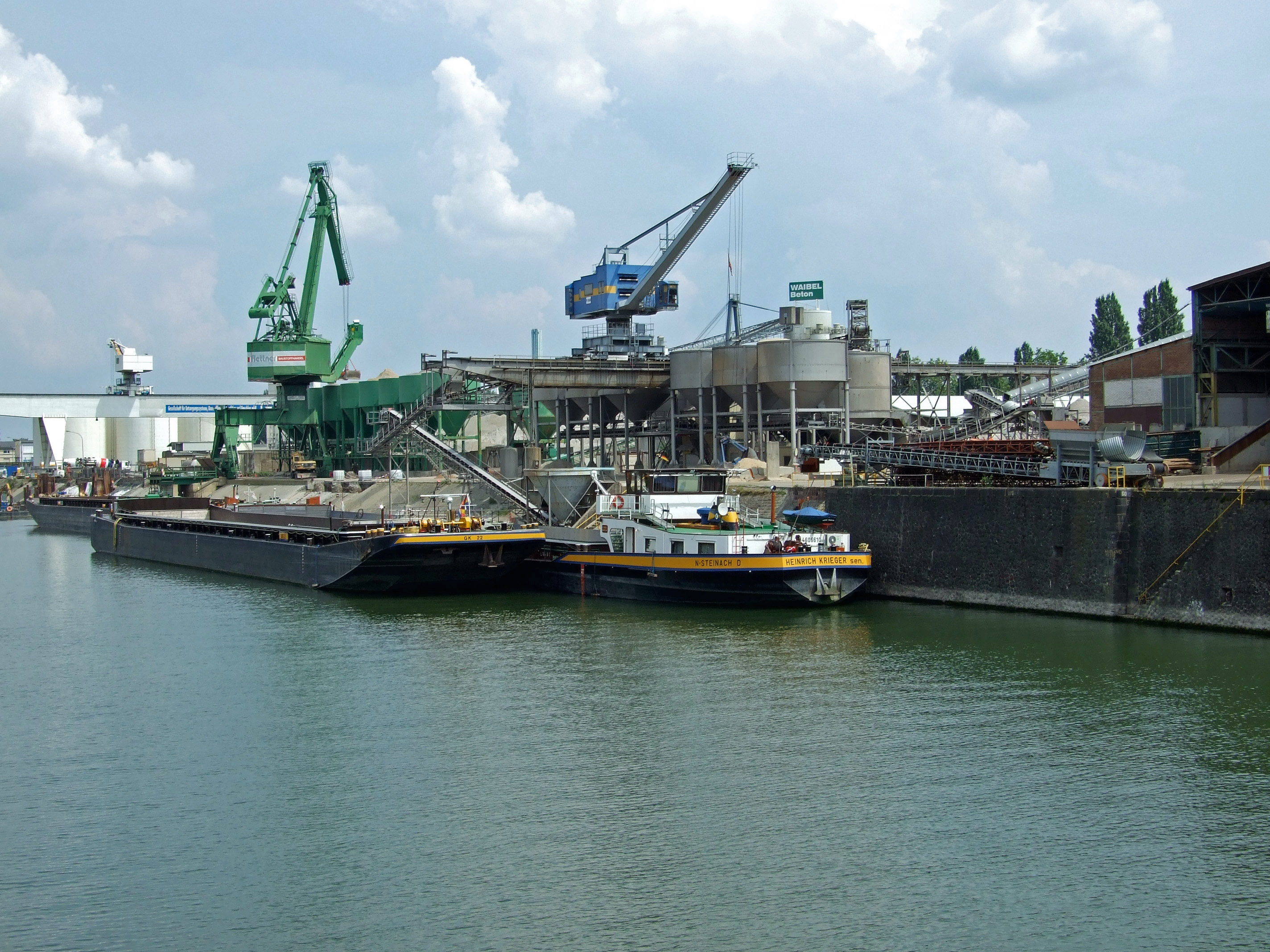 Unload of a ship at Osthafen at a cement mixer company, Frankfurt am Main Ostend